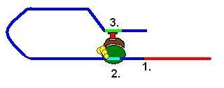 Simple model of eucariotic transcription initiation. 1. start of transcription 2. TATA-box with RNA-polymerase and general transcription factors 3. enhancer sequence binding an activator protein